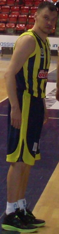 Šarūnas Jasikevičius, Lithuanian basketball player.